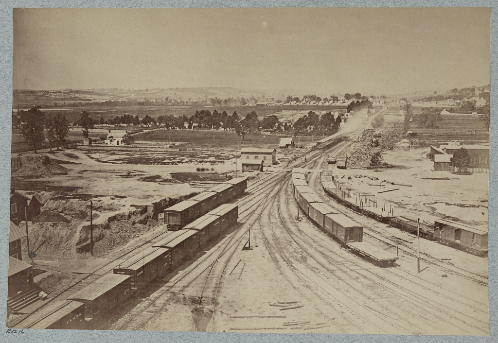 Potomac Yard_Outskirts of Alexandria 1861-1865